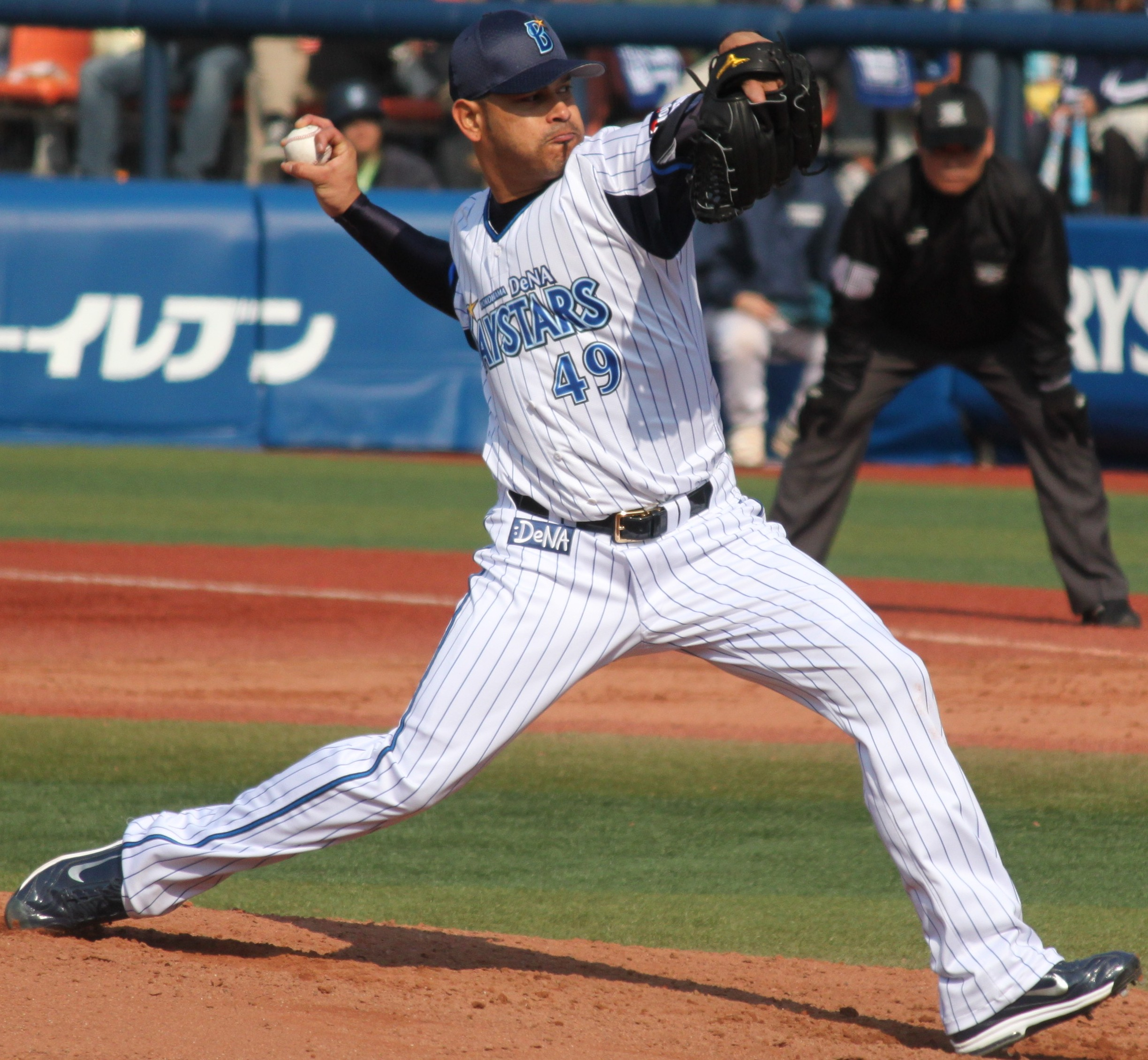 Guillermo Moscoso, pitcher of the Yokohama DeNA BayStars, at Yokohama Stadium.